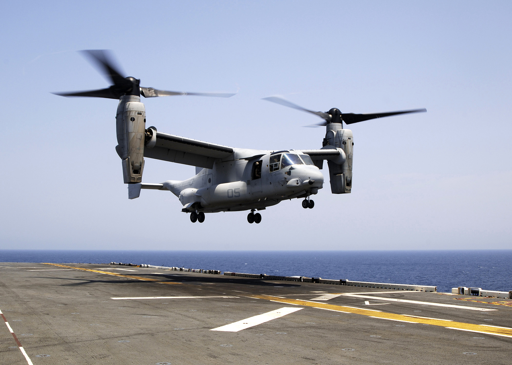 An MV-22 Osprey from Marine Medium Tiltrotor Squadron (VMM) 263 lands aboard the multi-purpose amphibious assault ship USS Iwo Jima (LHD 7). Iwo Jima is participating in Joint Task Force Exercise 08-4 as part of the Iwo Jima Expeditionary Strike Group.